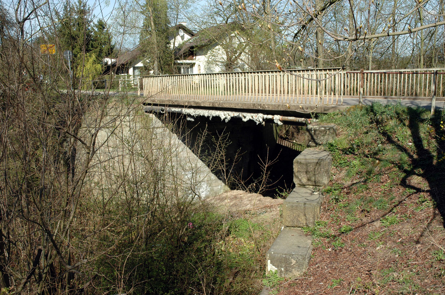 bridge over former (in 1945 abandoned) Freiberg–Bietigheim-Bissingen railway line at Bietigheim-Bissingen's Wilhelmshof.